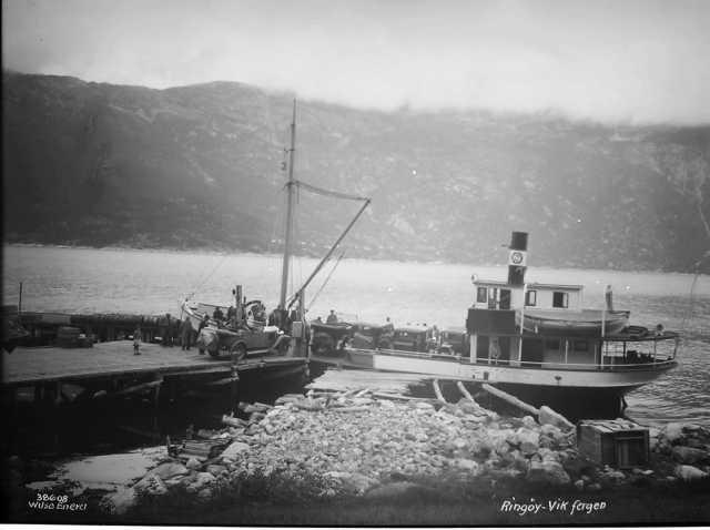 Norwegian cutter MK Kinsarvik in Eidfjord, 1932. The vessel was built in 1930 for Hardanger Sunnhordlandske Dampskibsselskap (HSD). Although not a car ferry, she was regularly carrying cars